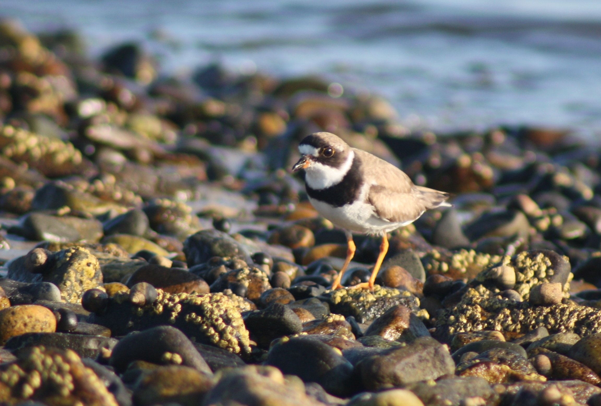 Semipalmated Plover, Drakes Island, Maine